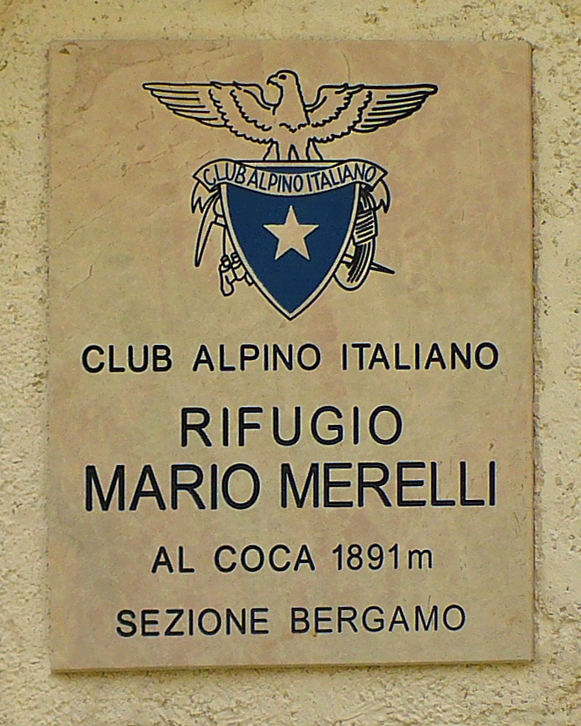 The plate near the entrance of the Mario Merelli al Coca mountain hut